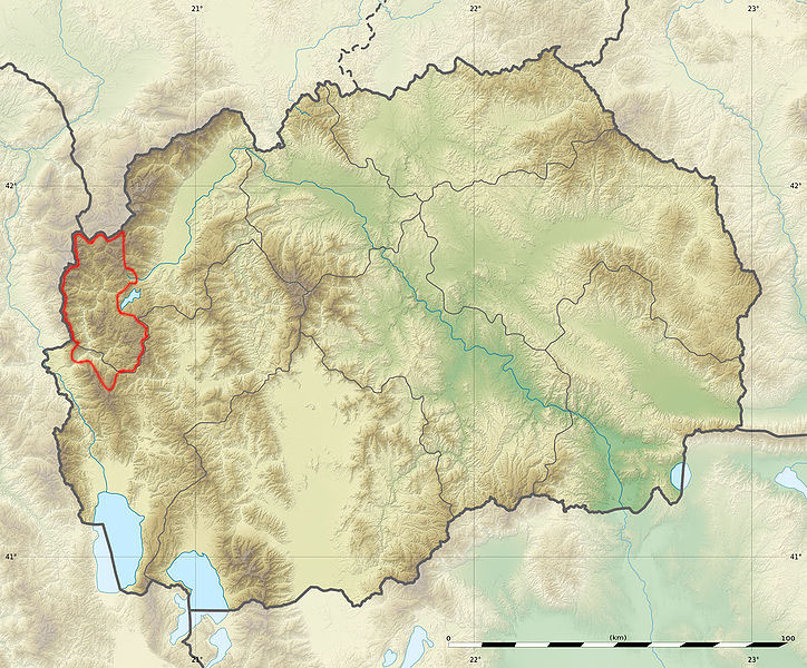 The Mijačija region within North Macedonia.